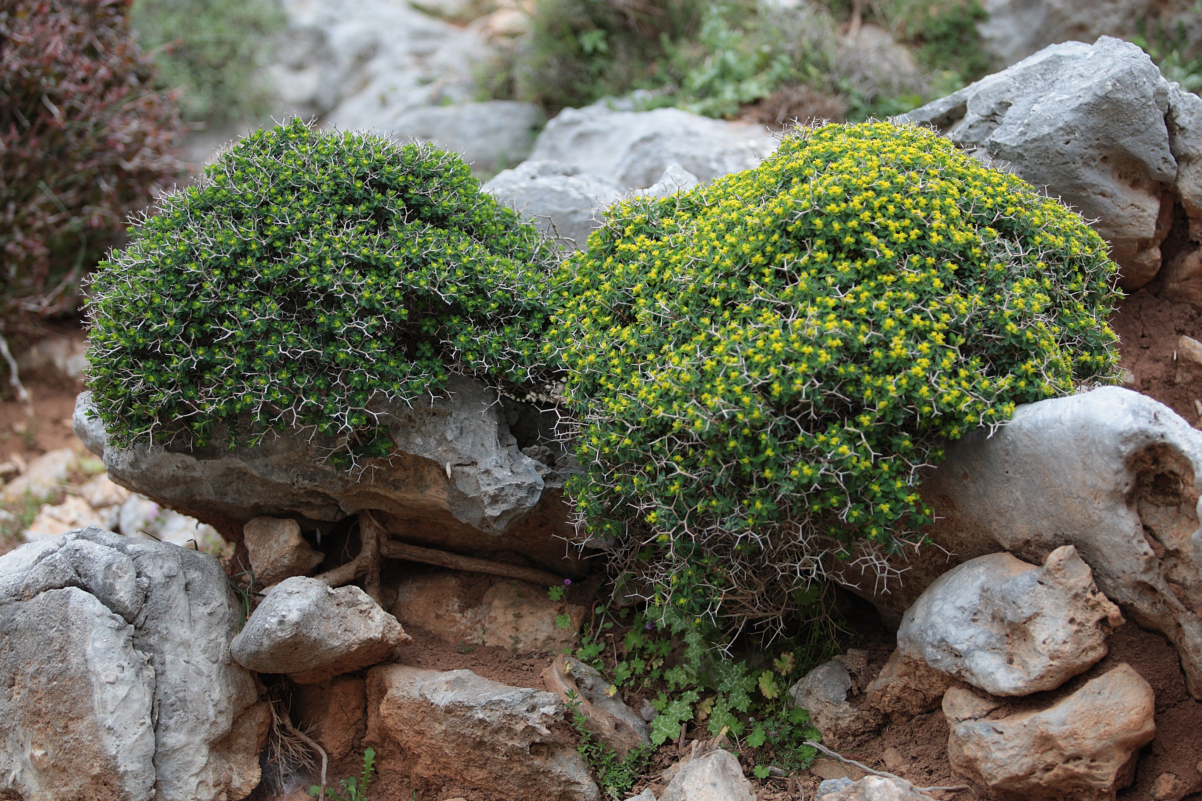 Greek spiny spurge ’’Euphorbia acanthothamnos’’, Omalos, Crete